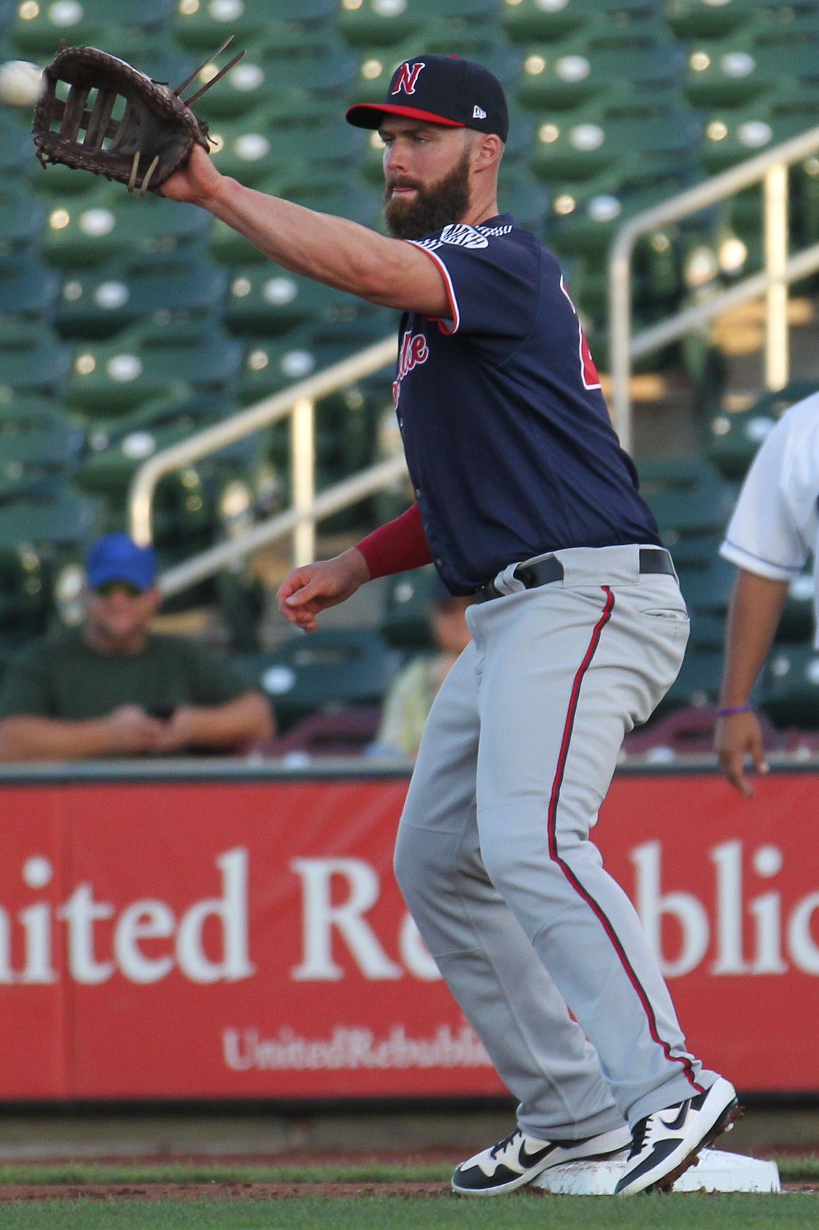 Minda Haas Kuhlmann | 2019 USAGE INSTRUCTIONS: You are welcome to share or publish to your own site or social media account, but you MUST credit me, Minda Haas Kuhlmann. Twitter: @minda33. Instagram: minda.haas